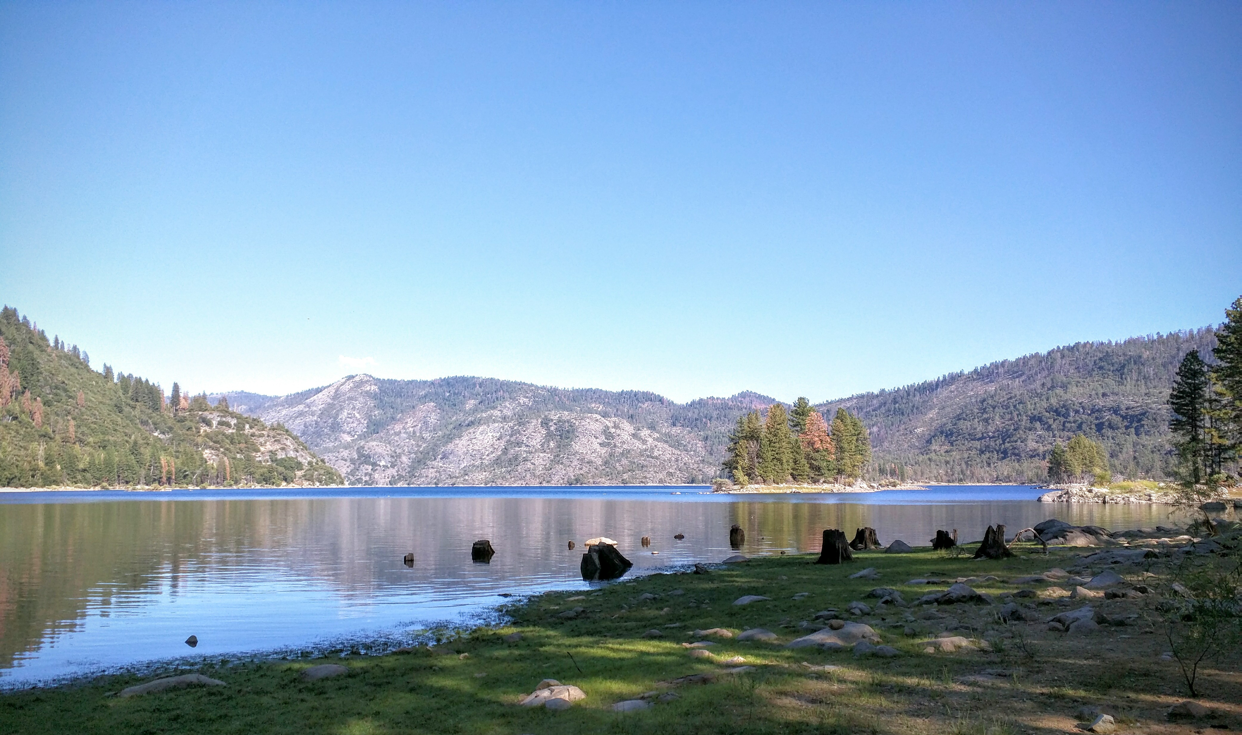 Lake Eleanor facing east from the north shore